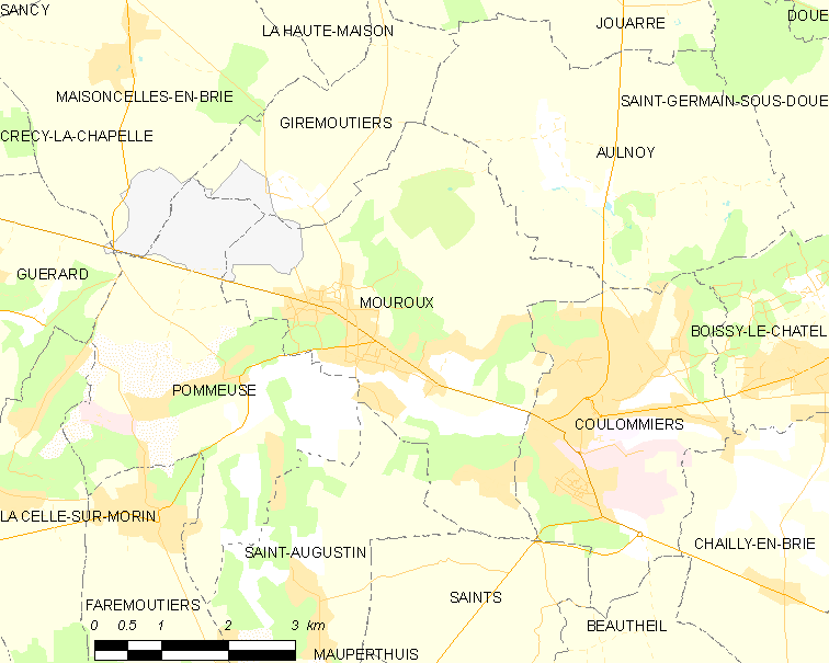 Map of French municipality Mouroux